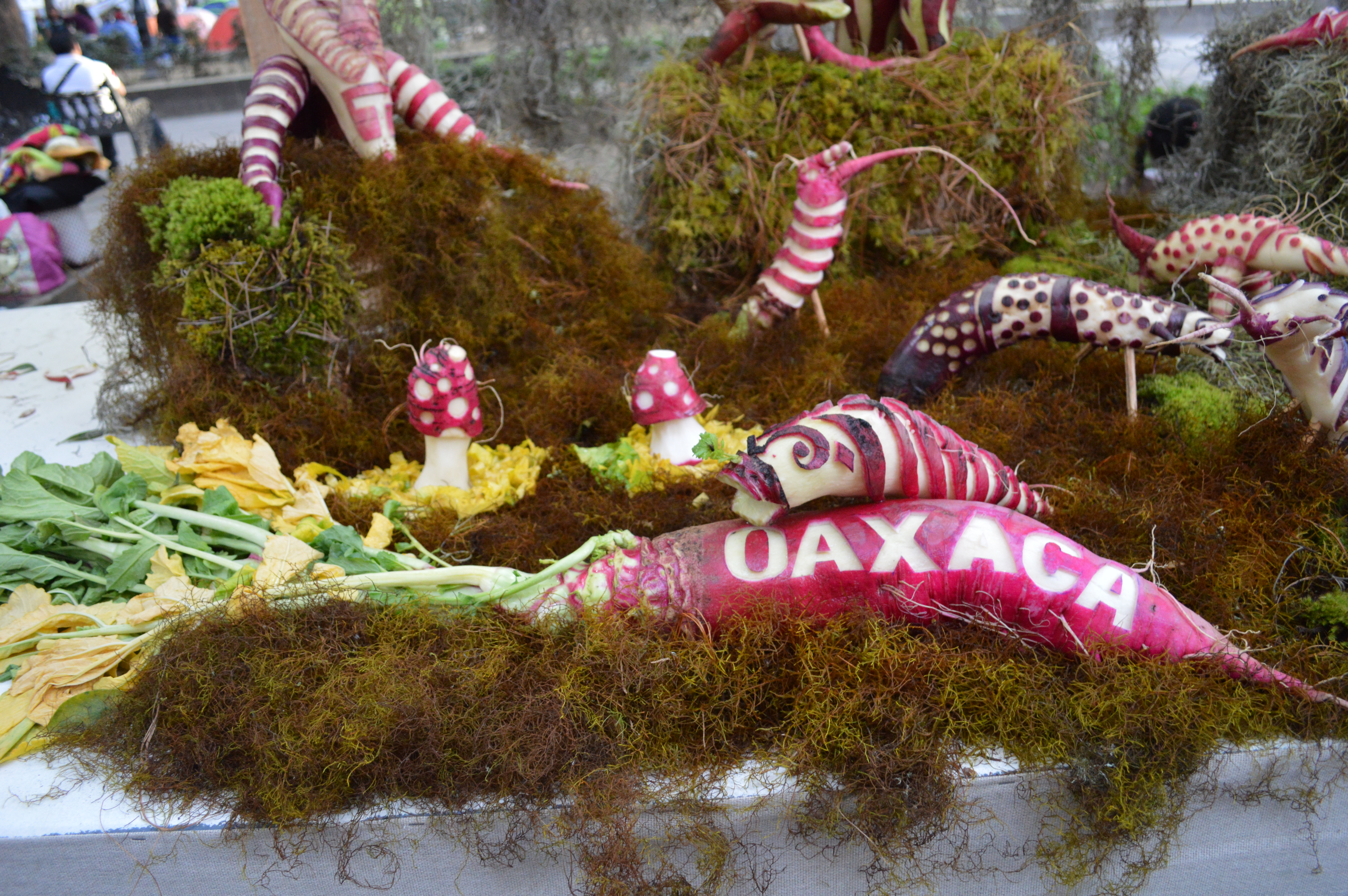 "Alebrijes, la Voz de mi Tierra" by Jesus Octavio Vazquez Sebastian at the 2014 Noche de Rabanos in the city of Oaxaca, Mexico